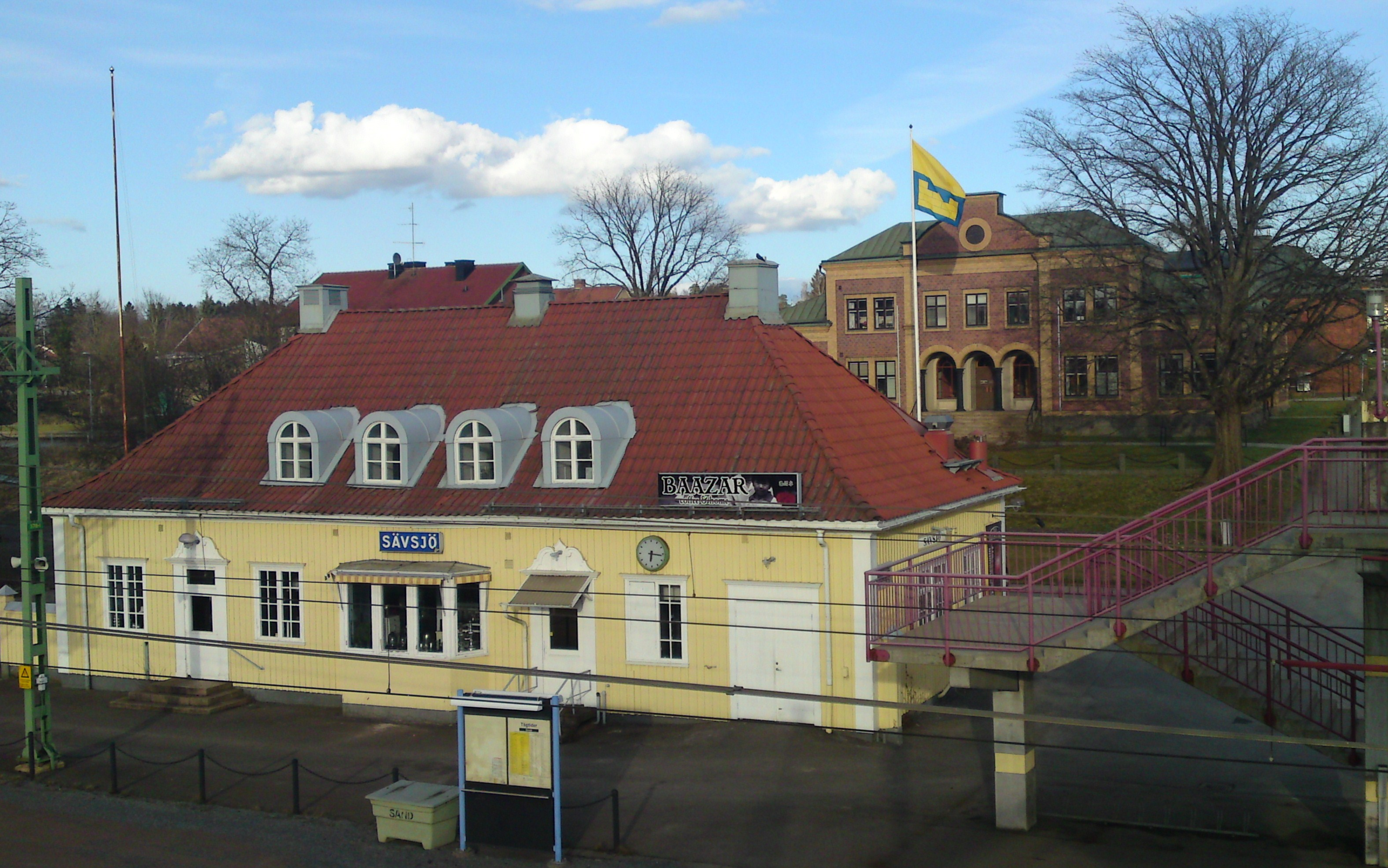 Sävsjö station with Sävsjö city hall in the background.